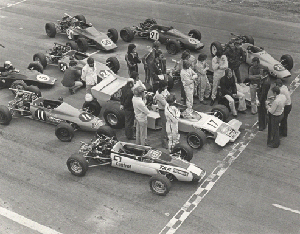 All cars shown in photo are Bowins. Picture taken at a Bowin racing car coaching clinic at Oran Park, Sydney Australia in 1975.